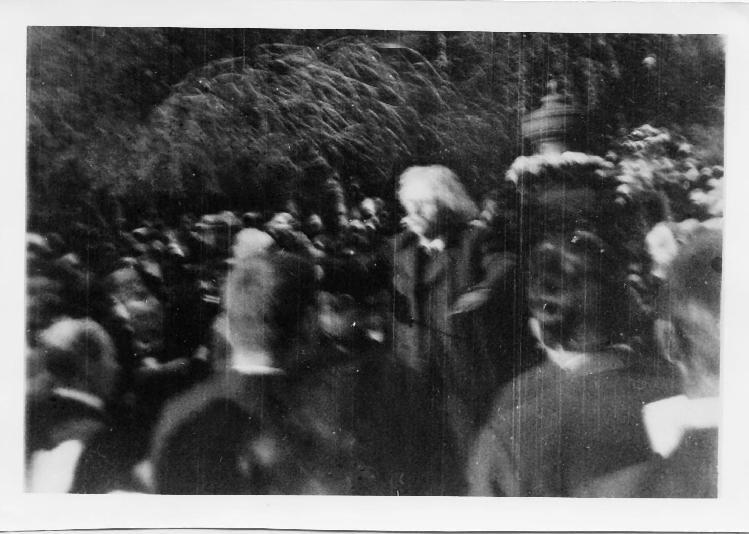 Artist: unknown Date/place: unknown Subject: unknown Medium: photographic positive, B&W Notes: none Persistent URL: [#//bergenbibliotek.no/digitale-samlinger//engelsk/-intro-eng” Original belongs to the Edvard Grieg Archives at Bergen Public Library] Original reference: bilde_04